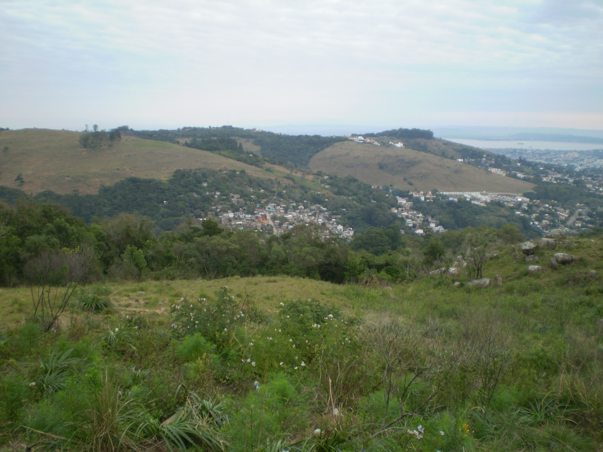 Morro da Polícia, Porto Alegre, Rio Grande do Sul, Brazil.